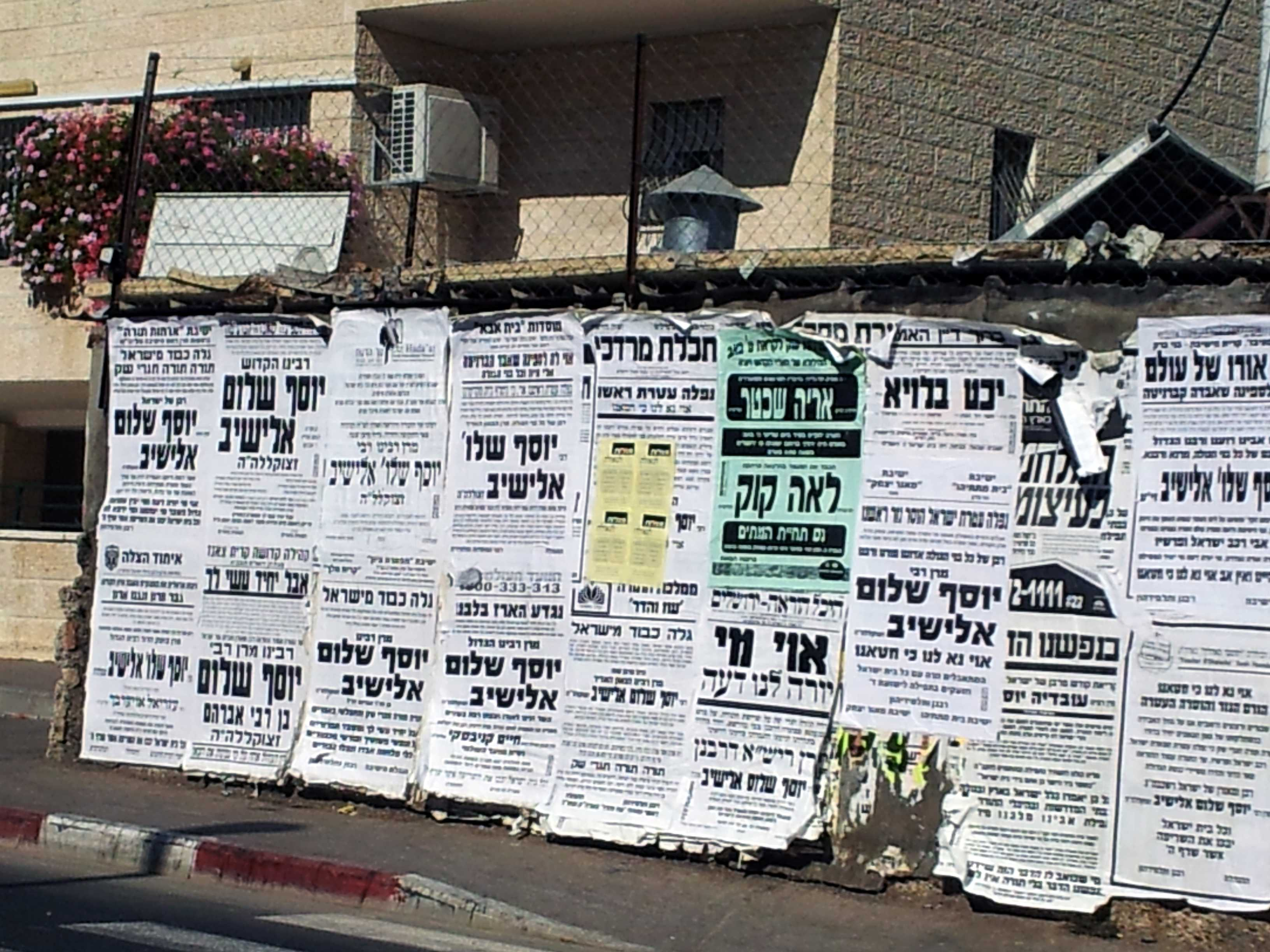 Obituaries for Yosef Shalom Elyashiv, Jerusalem, Israel